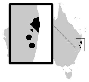 The distribution of the Pouched Frog (Assa darlingtoni).